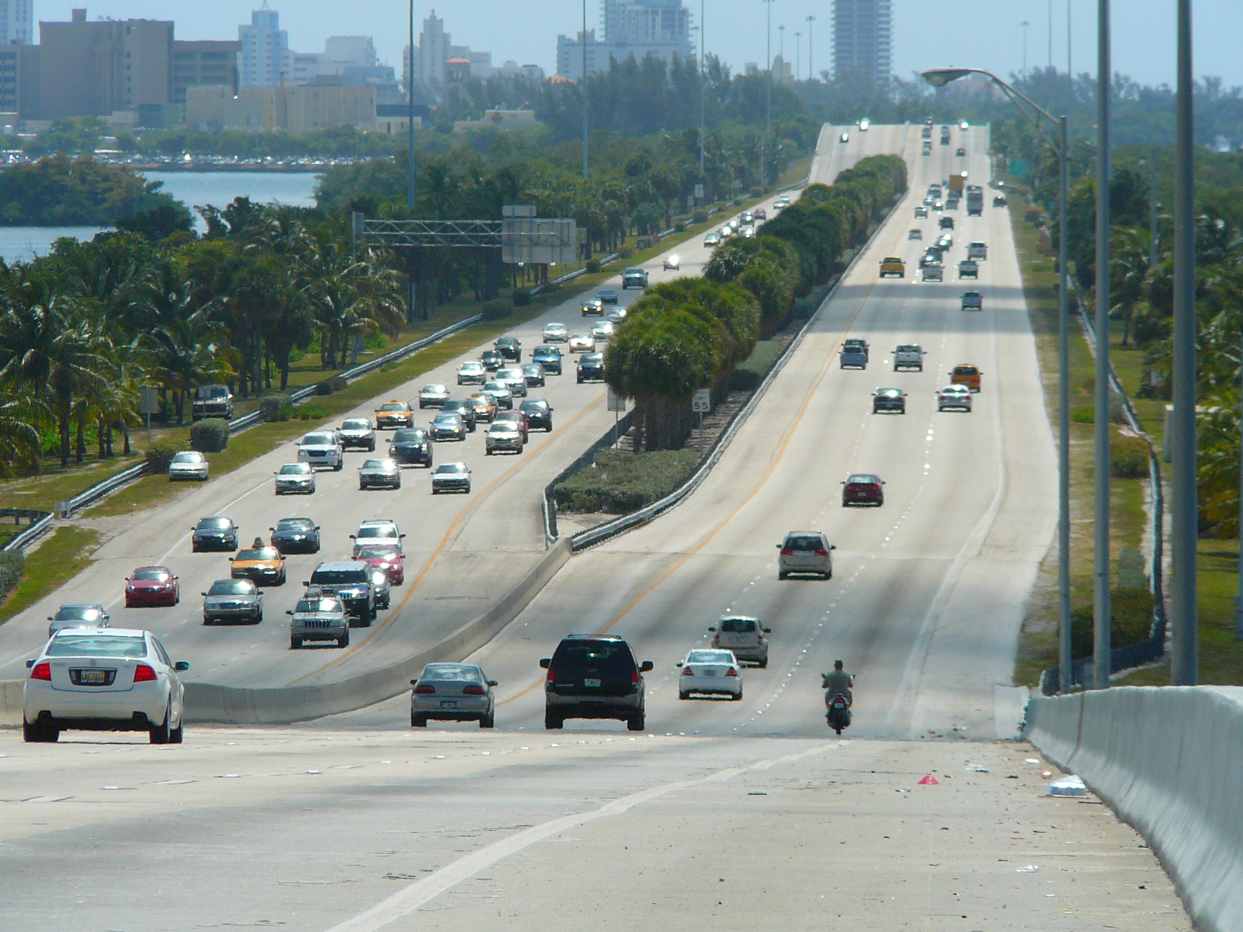 Digital photo taken by Marc Averette. The I-195 expressway eastbound connecting Midtown Miami with Miami Beach 5/16/2008